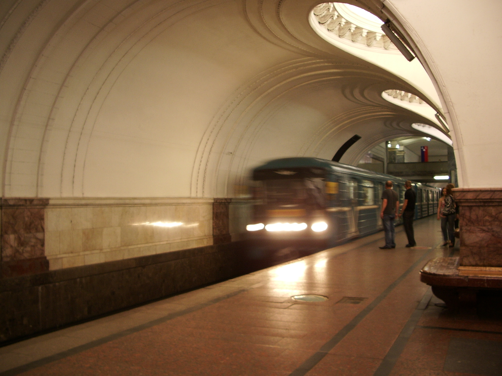 Train at the Sokol metro station. Moscow